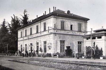 Gattinara railway station